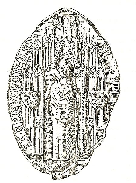 Seal of Goswinus Grope as titular bishop of Evelone and auxiliary bishop in Schwerin, found in Gross-Methling in the 19th century, cf. Schlie I, p. 577